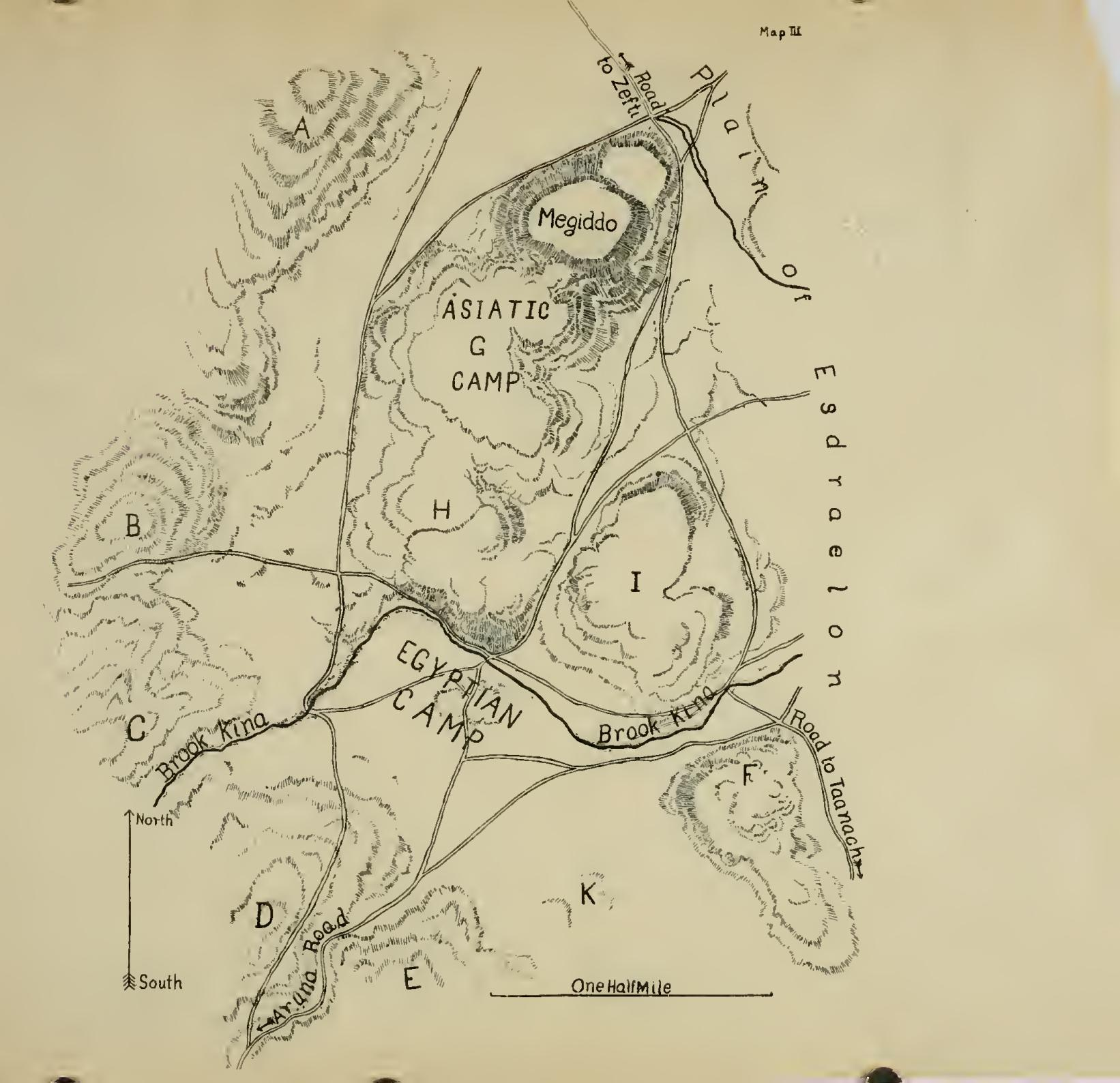 Description The camps of both sides described in the eve of the battle of Megiddo in the 15th century BCE (as reconstructed by Nelson). The coalition of Asiatics/Syrians/Canaanites on the hills nearer to Megiddo and the Egyptians headed by Thutmose III, on the southern hill. Author Harold Hayden Nelson (1878–1954) Descriptionegyptologist, historian, epigrapher and university teacherDate of birth/death25 November 187824 January 1954Location of birth/deathNew OrleansChicagoAuthority control : Q51501377 LCCN: n82125774 WorldCat Date1913SourceNelson, Harold Hayden (1921) [1913] The Battle of Megiddo, Thesis (PH. D)--University of Chicago Geotemporal dataDate depictedposs. 1479 BCGeoreferencingGeoreference the map in Wikimaps Warper If inappropriate please set warp_status=skip to hide. Bibliographic dataBook authorHarold Hayden NelsonBook titleBattle of Megiddo (Ph.D thesis)Pageend of bookLanguageEnglishYear of publication1921 Archival dataScan resolution400 ppi The camps of both sides described in the eve of the battle of Megiddo in the 15th century BCE (as reconstructed by Nelson). The coalition of Asiatics/Syrians/Canaanites on the hills nearer to Megiddo and the Egyptians headed by Thutmose III, on the southern hill.